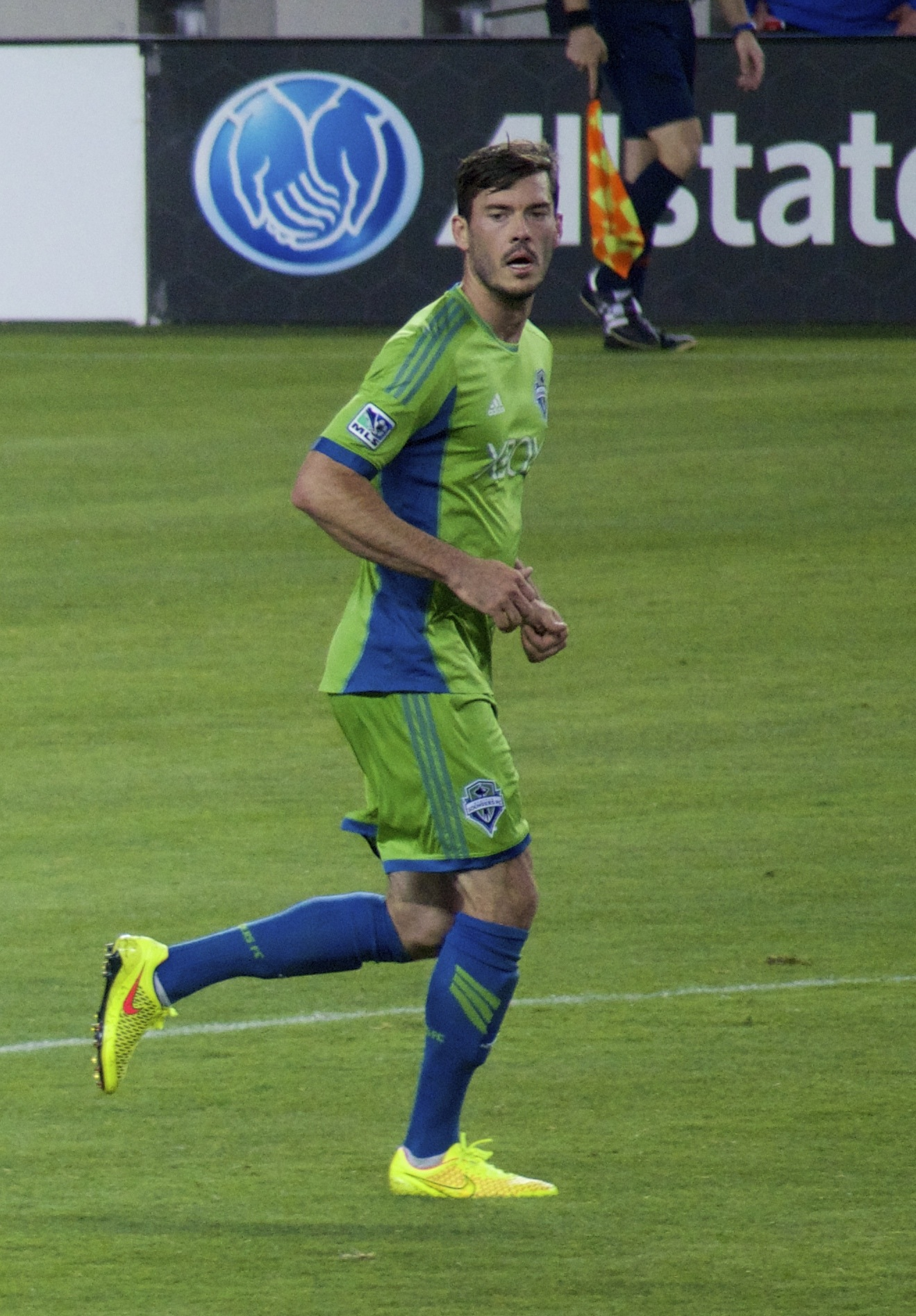 Brad Evans, Levi Stadium inaugural game, Seattle Sounders vs San Jose Earthquakes, Santa Clara, California